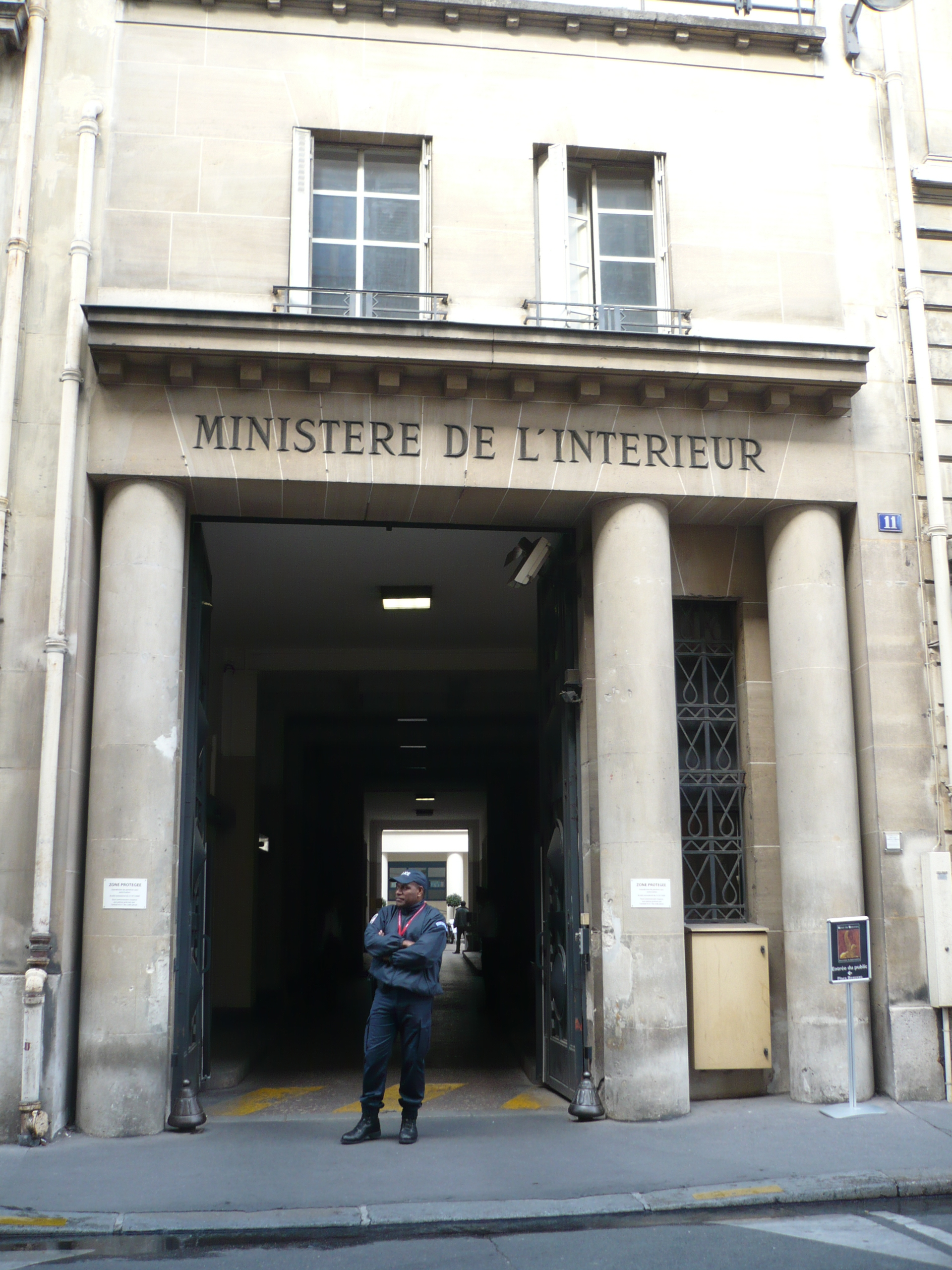 Entrance from Ministère français de l'Intérieur, rue des Saussaies